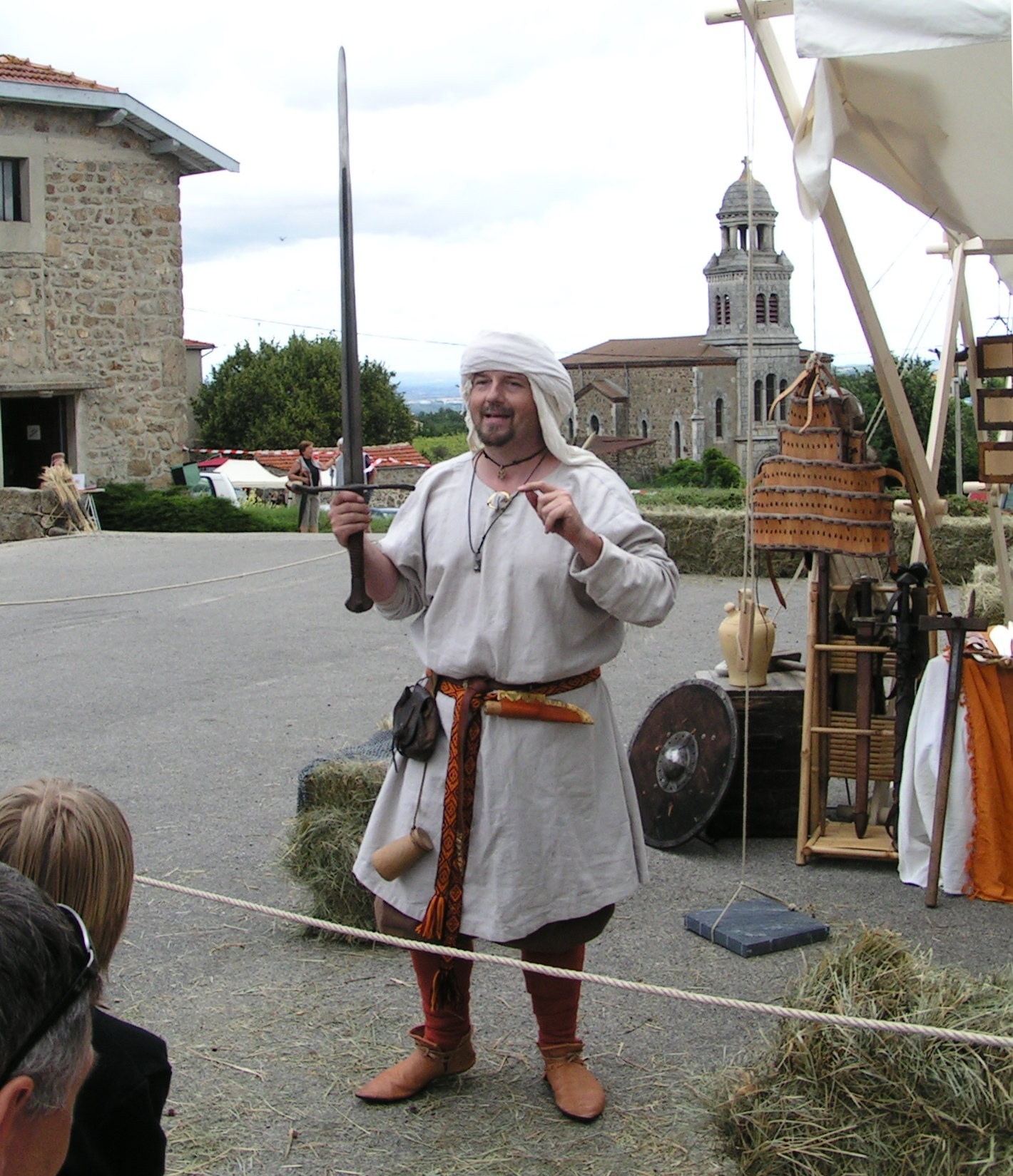 Talencieux fête médiévale 2012